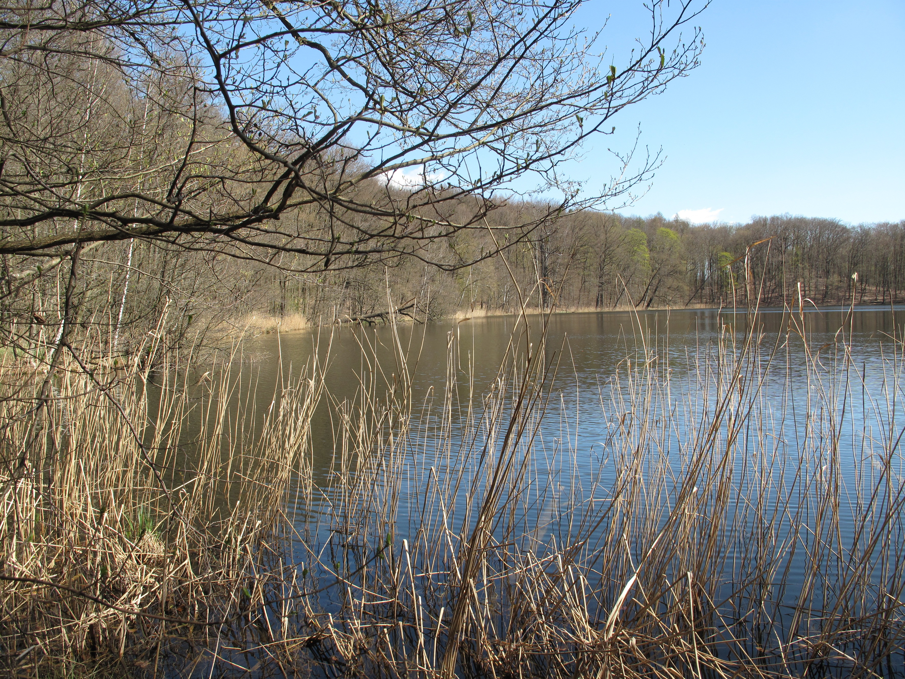 The Kleine Tornowsee is a lake in the hill country „Märkische Schweiz“ and in the Märkische Schweiz Nature Park. It is situated in Pritzhagen, a village of the municipality Oberbarnim in the District Märkisch-Oderland, Brandenburg, Germany. The lake covers 4 hectare.